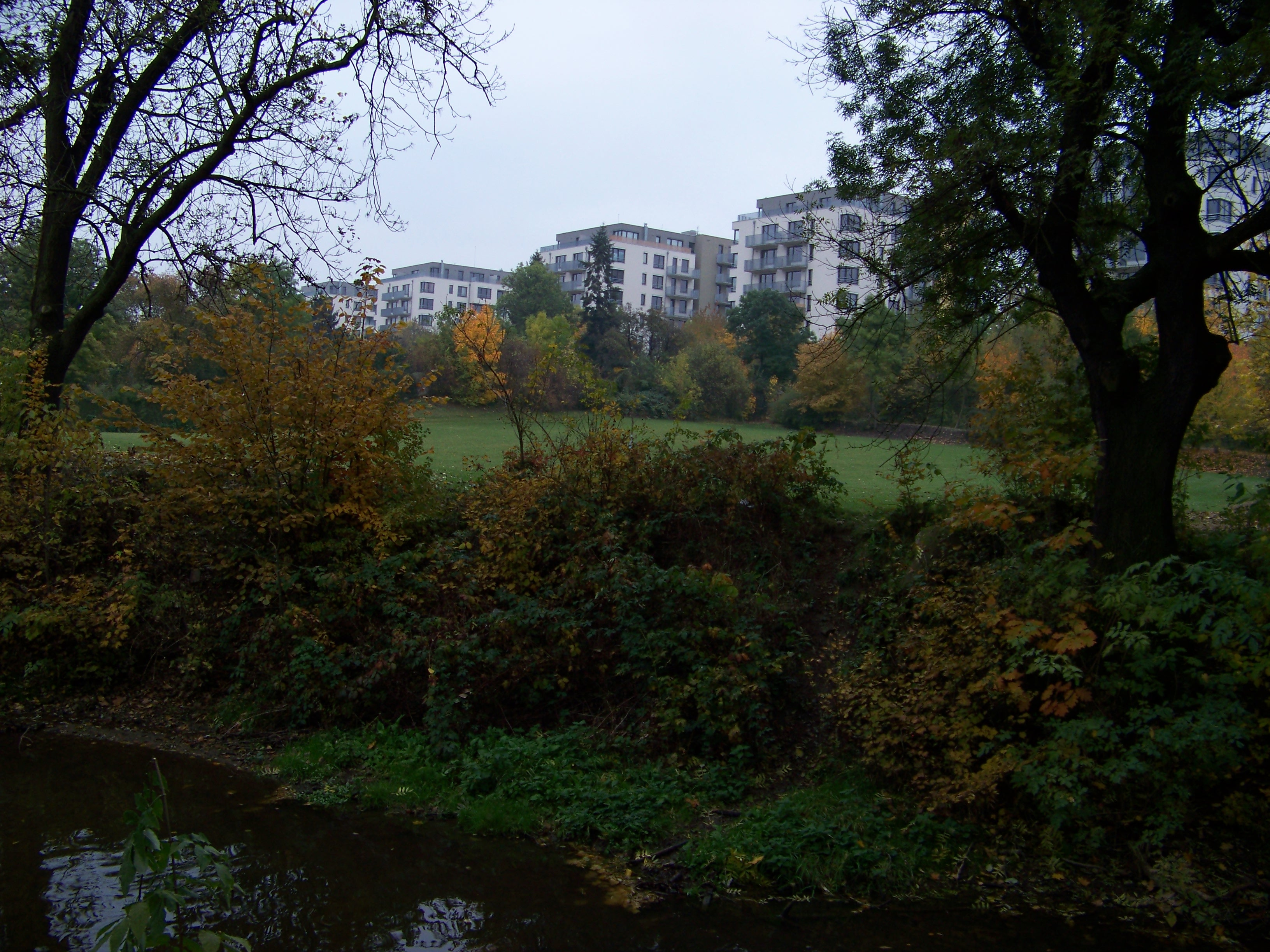 Prague-Vysočany, the Czech Republic. Rokytka creek and houses in Jana Přibíka street.